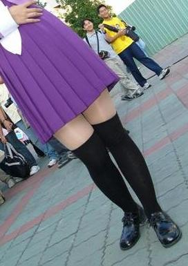 Thigh highs stocking